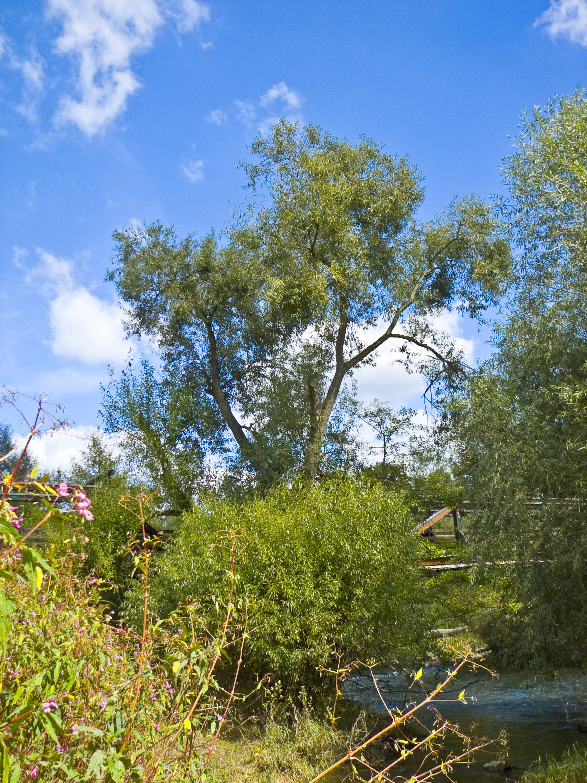 Crack-Willow (Salix fragilis), Location: Marburg, Hesse, Germany